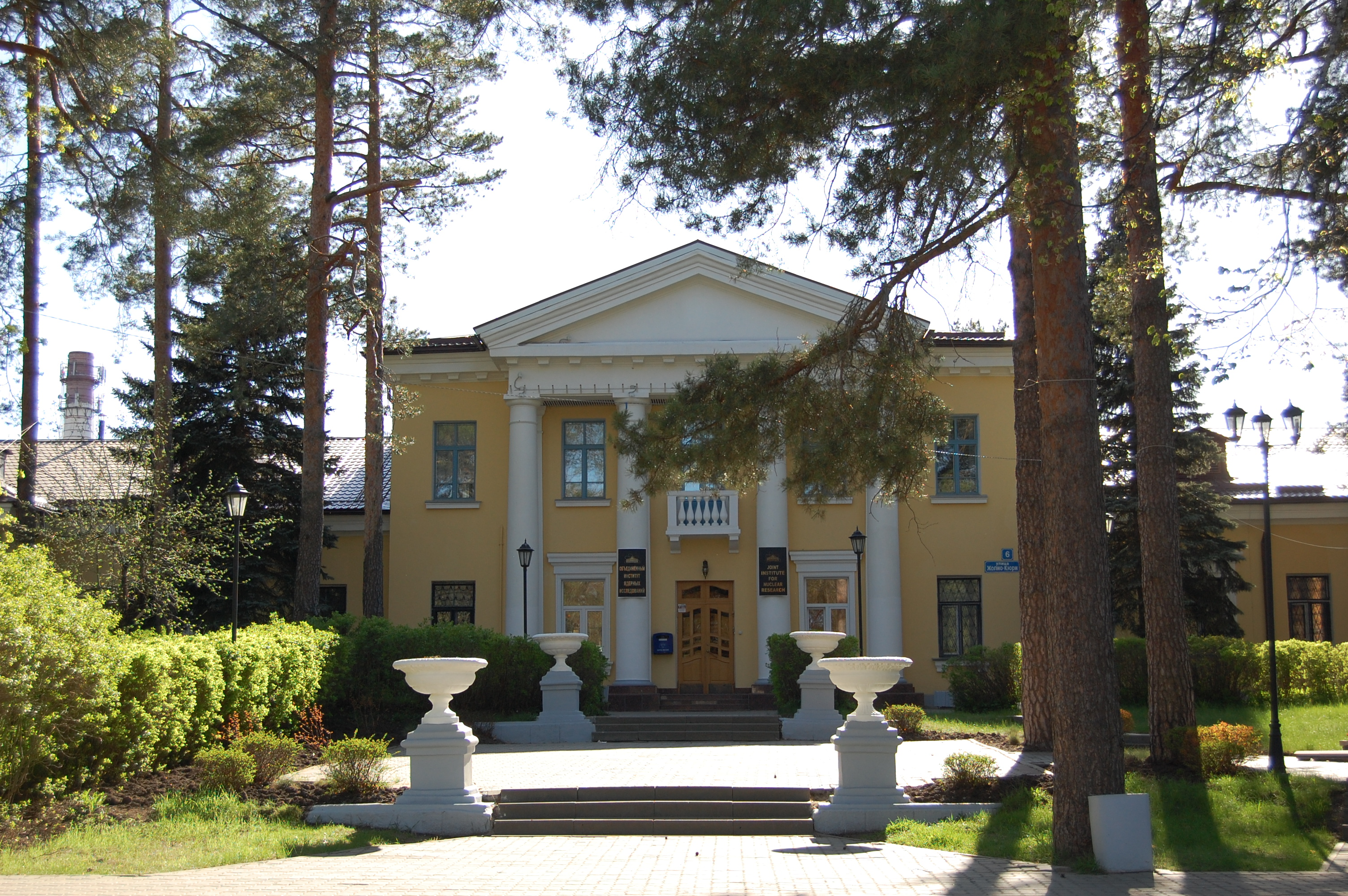 House of Scientiests in Dubna, Moscow Oblast.